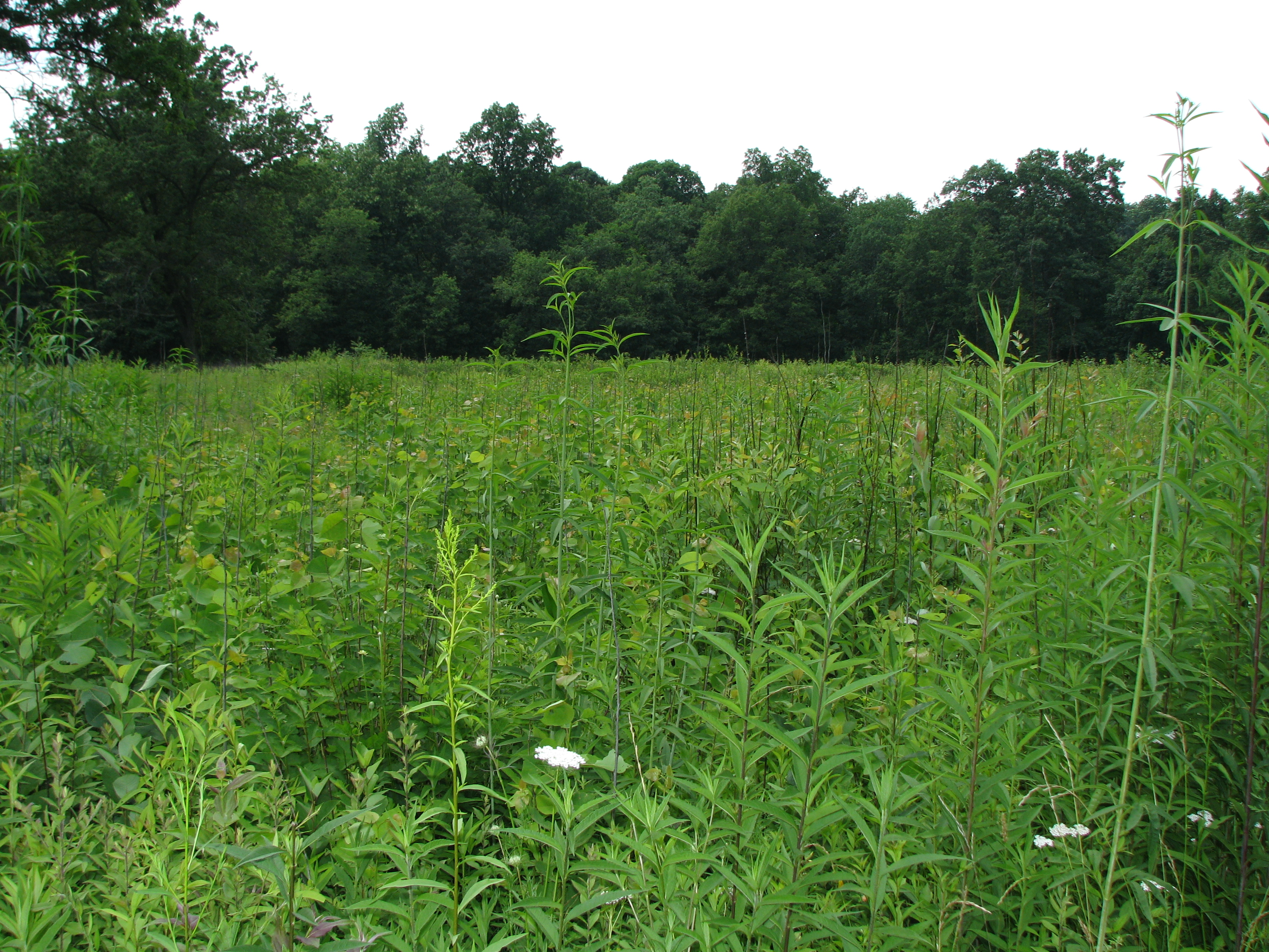 A relict prairie at Jennings EEC